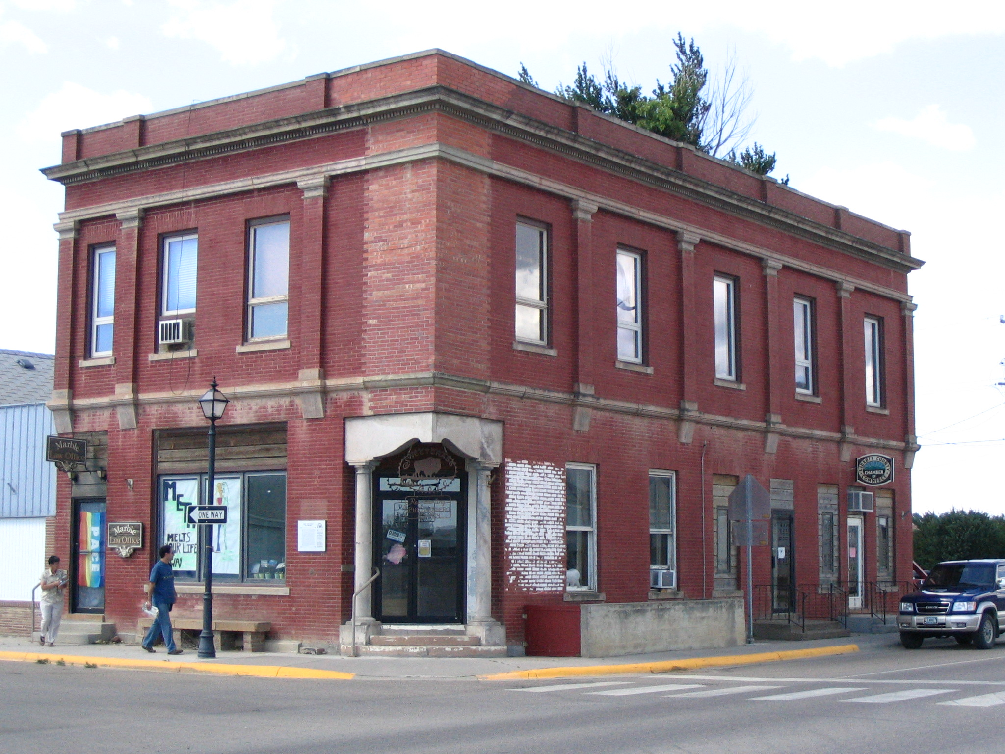 The First State Bank Building in Chester, Liberty County, Montana was built in 1910 and is listed on the National Register of Historic Places. It once had a corner turret, long since removed.